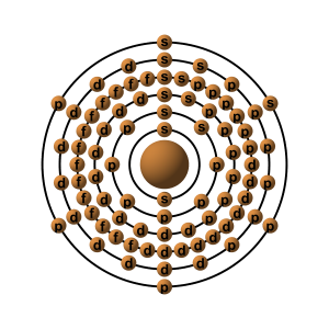 This is a part of a series of drawings of the individual elements electron configuration: Each diagram shows the electron shells with the number of electrons, and furthermore, each electron bears a letter "s", "p", "d" or "f" which shows the orbital electrons belong. This drawing depicts electron configuration in a atom: The big ball in the middle depicts the nucleus, and the little balls are electrons. The color on the big ball in the middle is green for non-metals, blue for the noble gases, violet for actinoids, purple pink for transition metals, red alkali metals, gray for "Other metals", yellow for halogens, orange for the alkaline earth metal arts and brown for half metals.